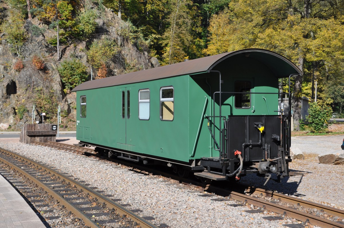 rail car of Weißeritztalbahn, Saxony, Germany